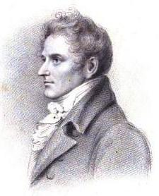 Portrait of Sir John Carr (1772–1832), English travel writer, from Poems (1809).